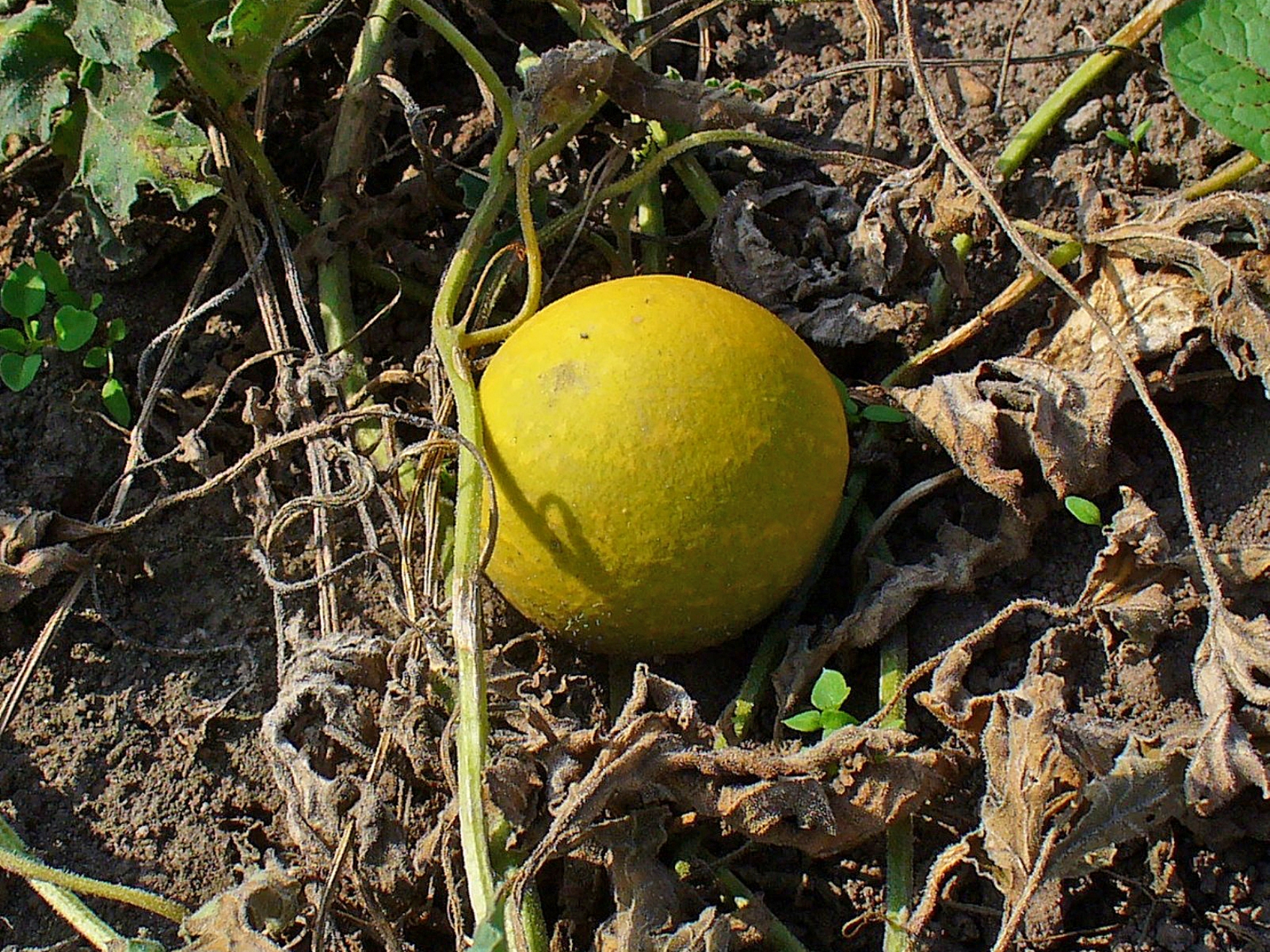 Citrullus colocynthis, Cucurbitaceae, Colocynth, Bitter Apple, Bitter Cucumber, Egusi, Vine of Sodom, ripe fruit; Botanical Garden KIT, Karlsruhe, Germany. The ripe, hulled, seeded fruits are used in homeopathy as remedy: Colocynthis (Coloc.)